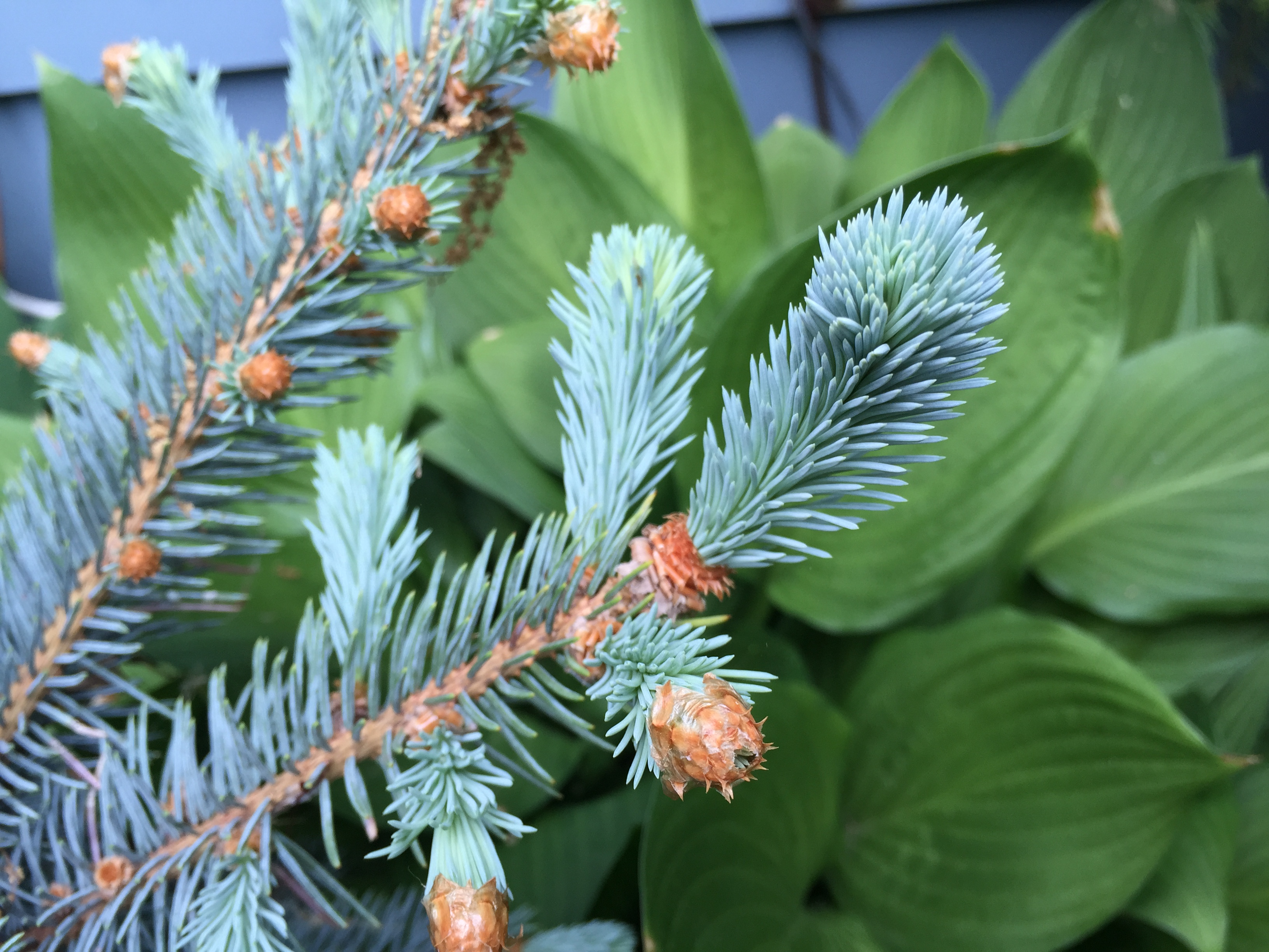 Blue Spruce new growth along Terrace Boulevard in Ewing, New Jersey